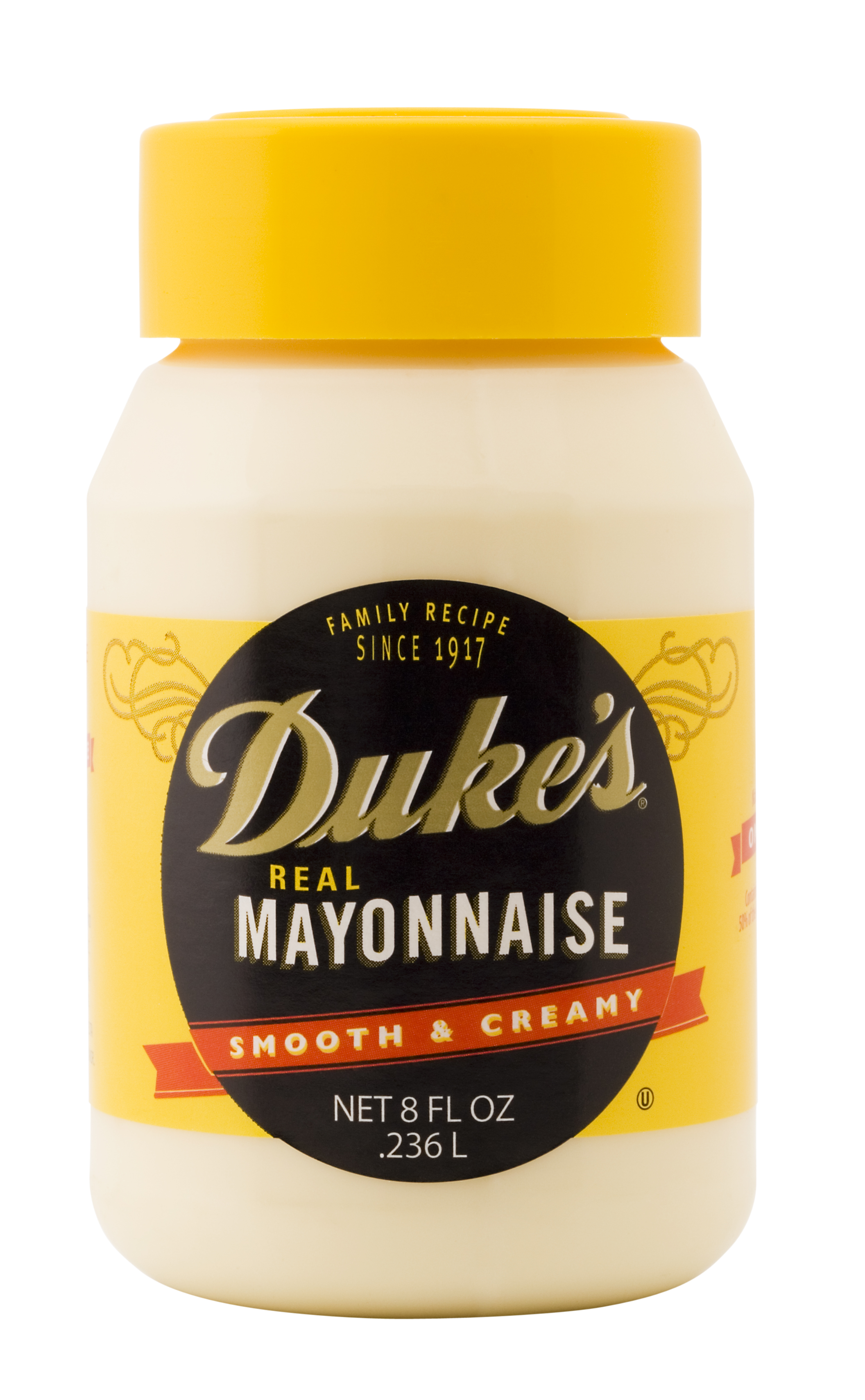 8-ounce (236 ml) jar of Duke's Mayonnaise